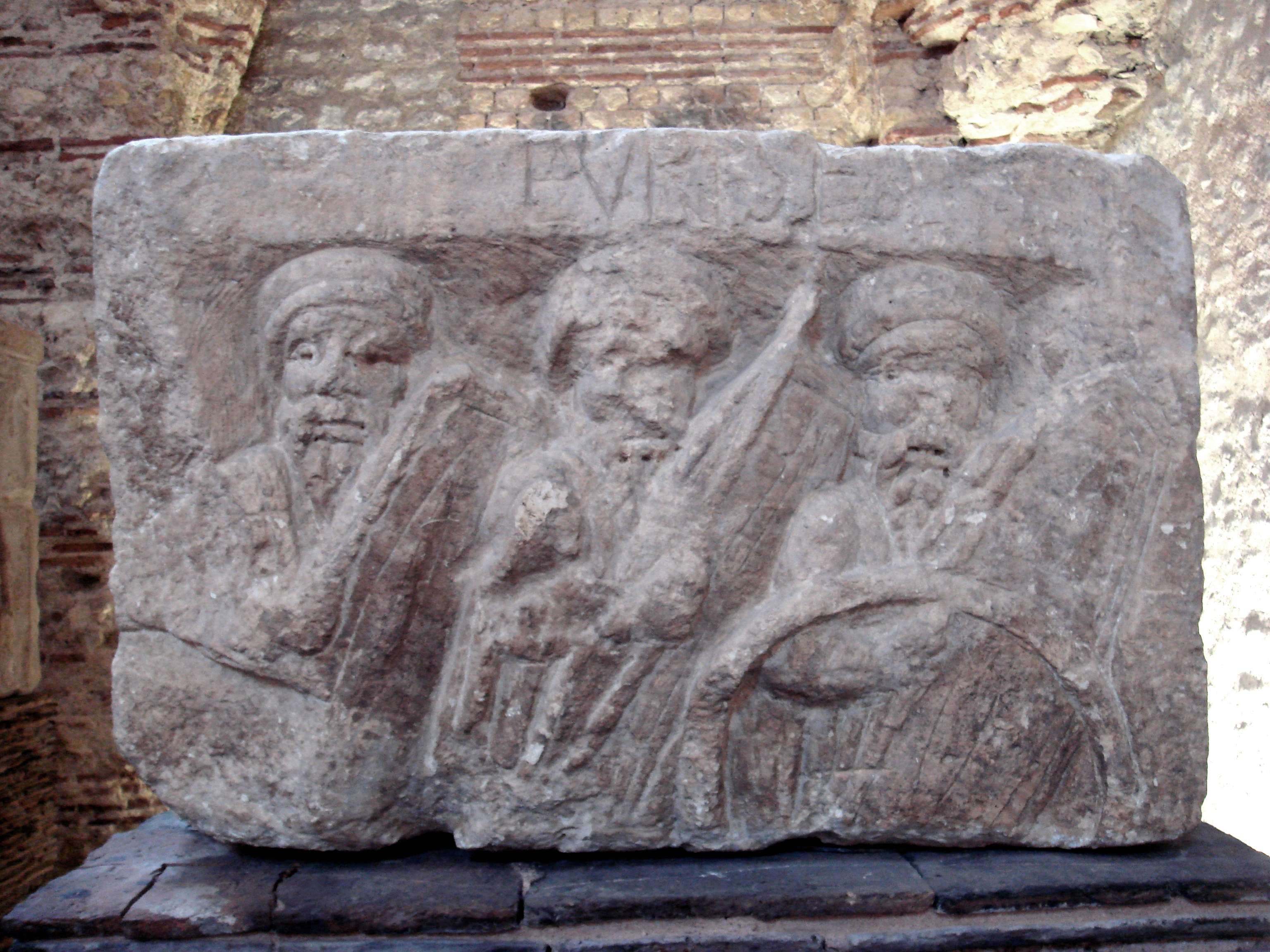 Pilier_des_Nautes_with_dedication_to_Jupiter_under_Tiberius_with_warriors_14_to_37_CE